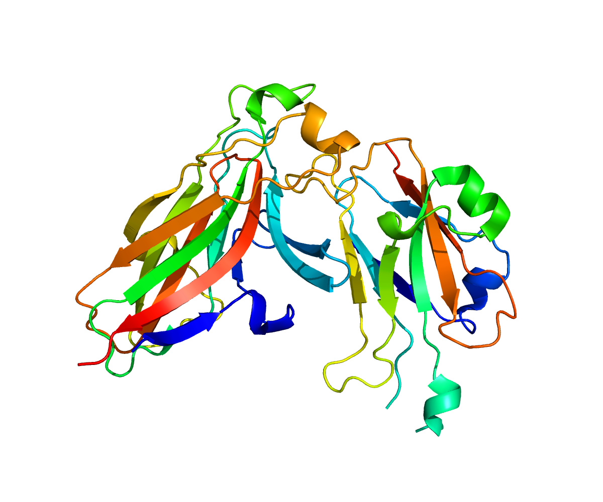 Structure of protein EFNA1.Based on PyMOL rendering of PDB 3CZU.